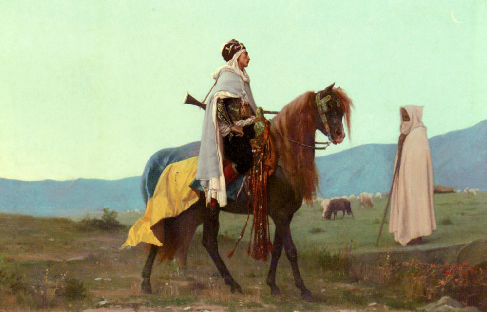 Painting entitled "An Arab Horseman" oil on canvasmedium QS:P186,Q296955;P186,Q12321255,P518,Q861259, Height: 54 cm (21.2 ″); Width: 82 cm (32.2 ″) dimensions QS:P2048,54U174728;P2049,82U174728